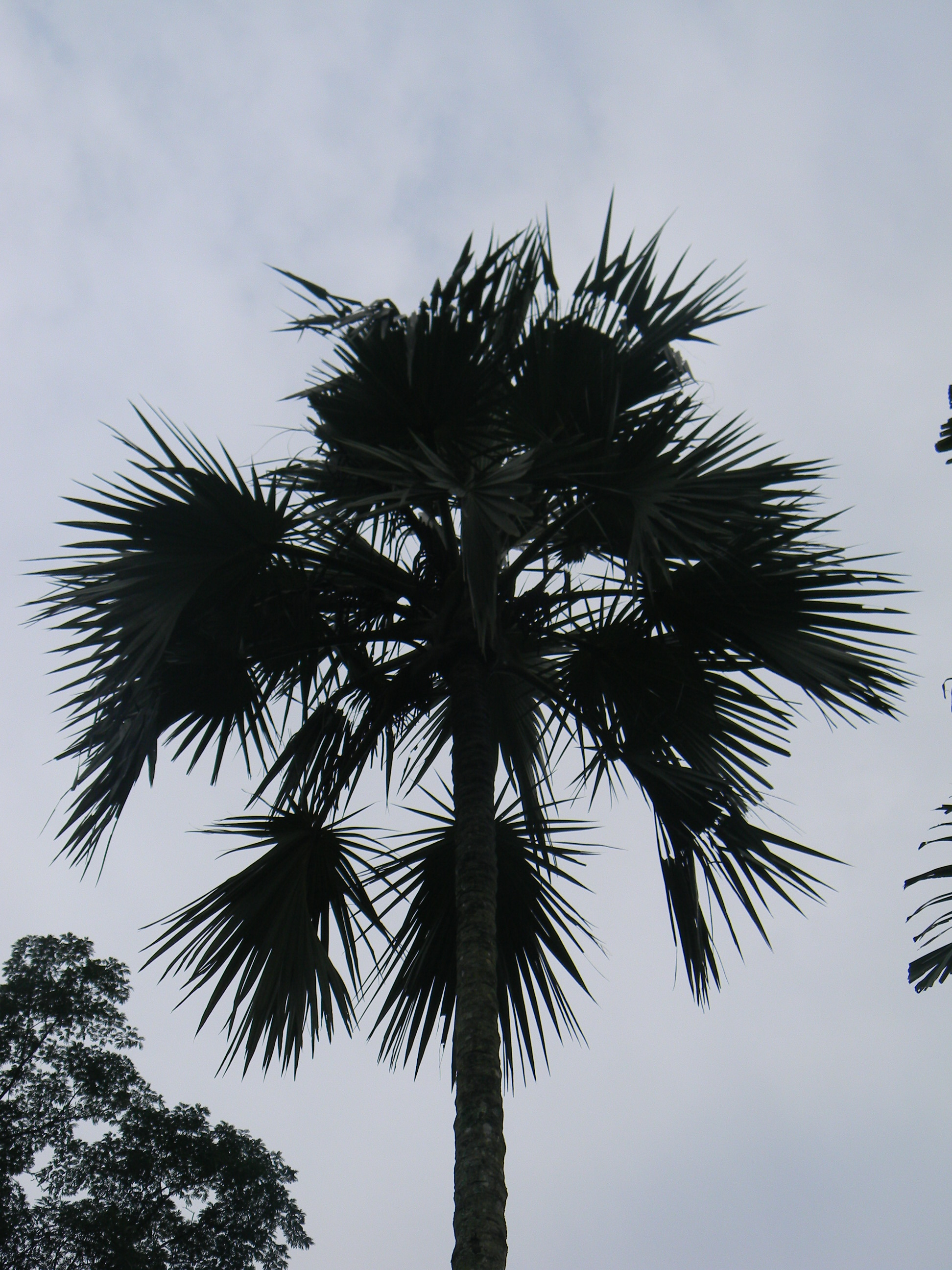 Latania verschaffeltii Bogor